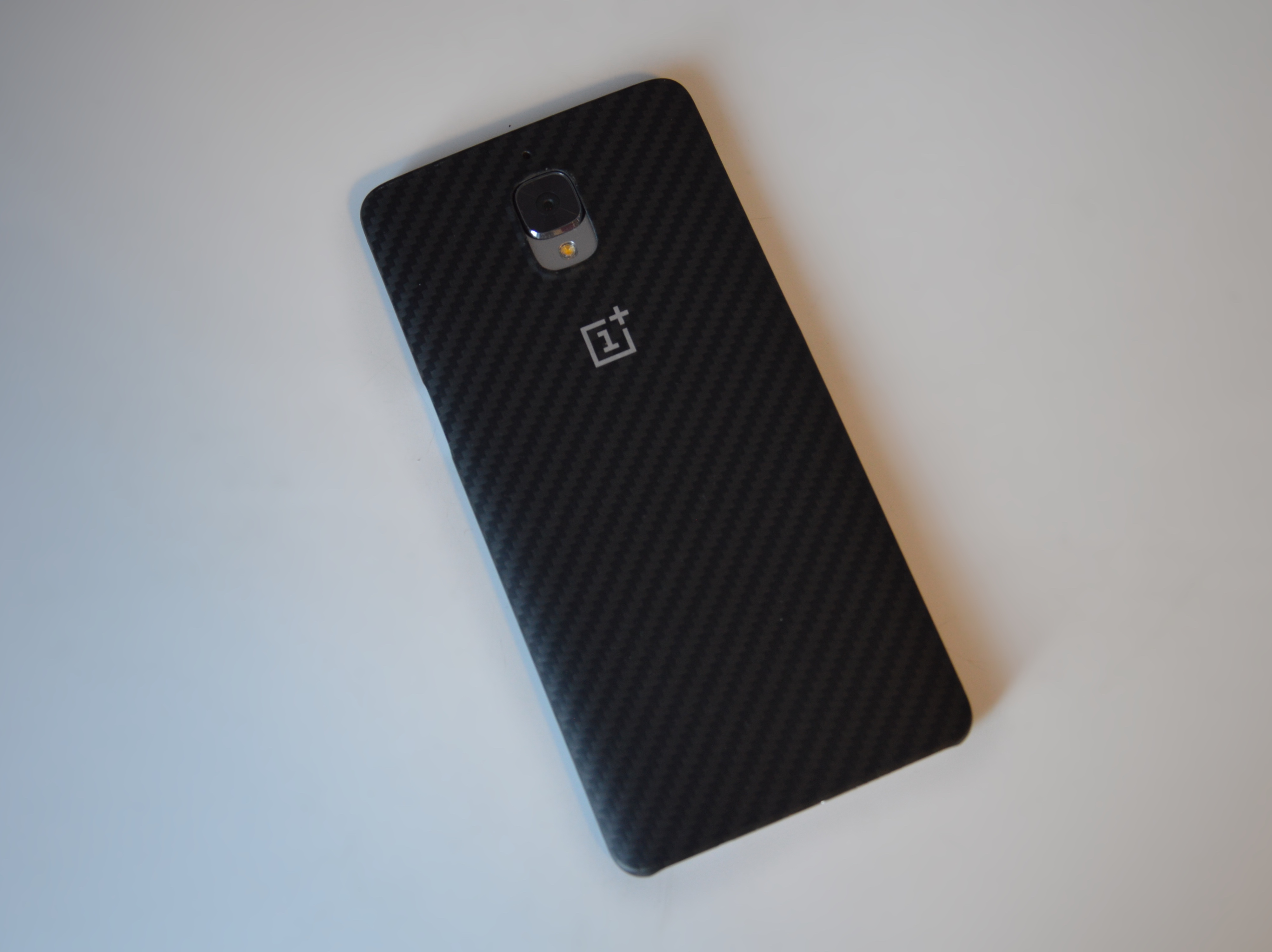 OnePlus 3 in the Styleswap cover made by OnePlus